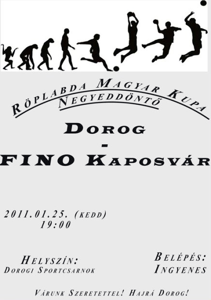 One of Dorogian volleyball poster